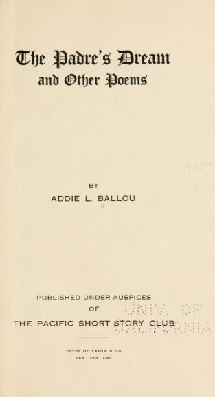 Title page to the book The Padre's Dream, and Other Poems. By American writer Addie Lucia Ballou (1838-1916). From the frontispiece to herSan Jose, CA: The Pacific Short Story Club, 1915.